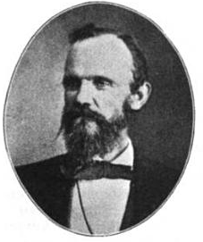 Portrait of Robert C. Newton